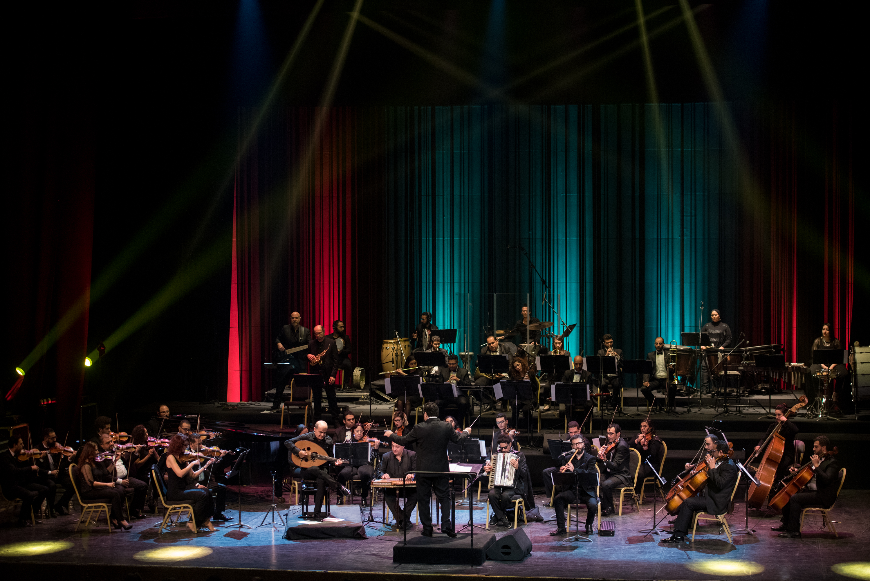 Cairo Steps with Cairo Opera Orchestra - 2019 Photo by Marc Onsi